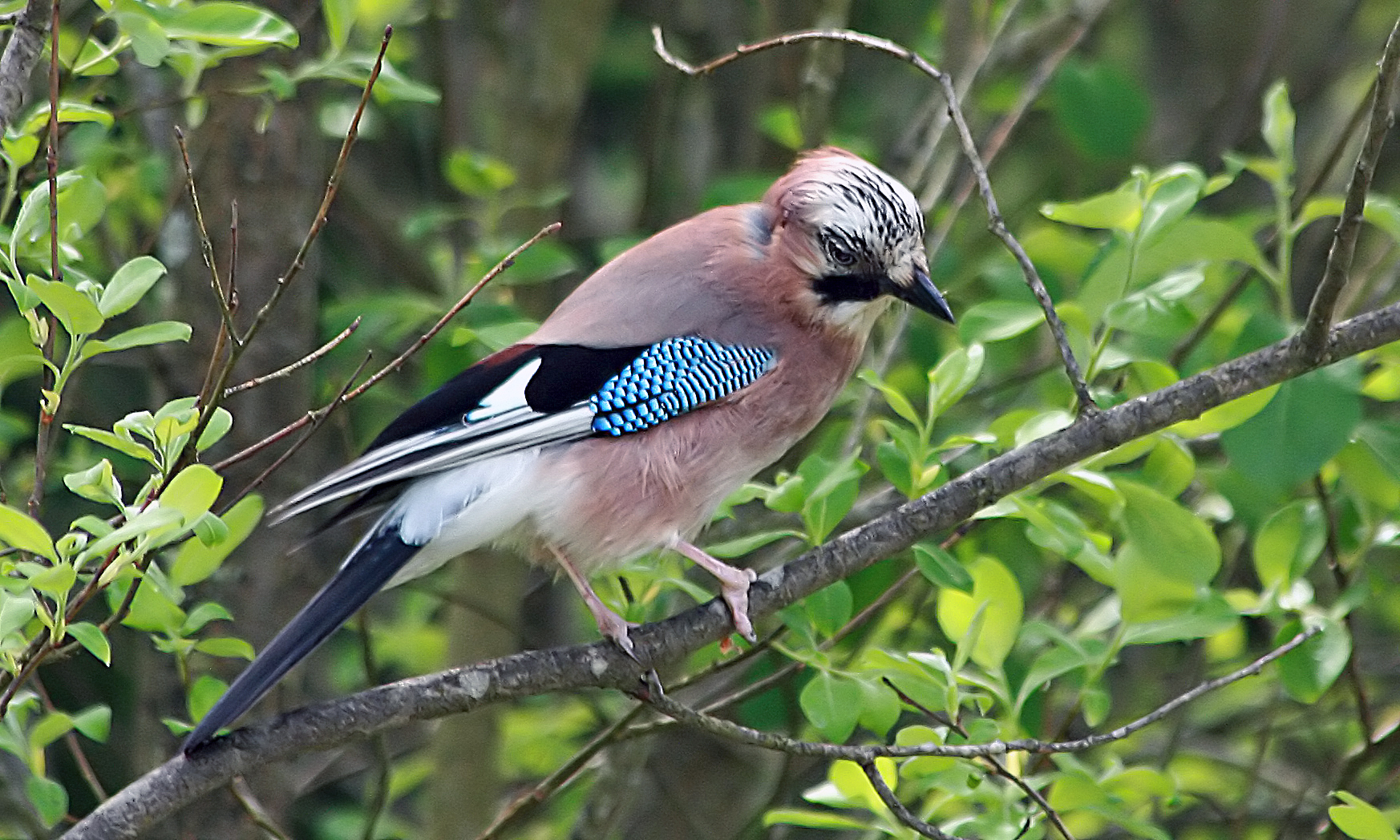 Description: Garrulus glandarius albipectus